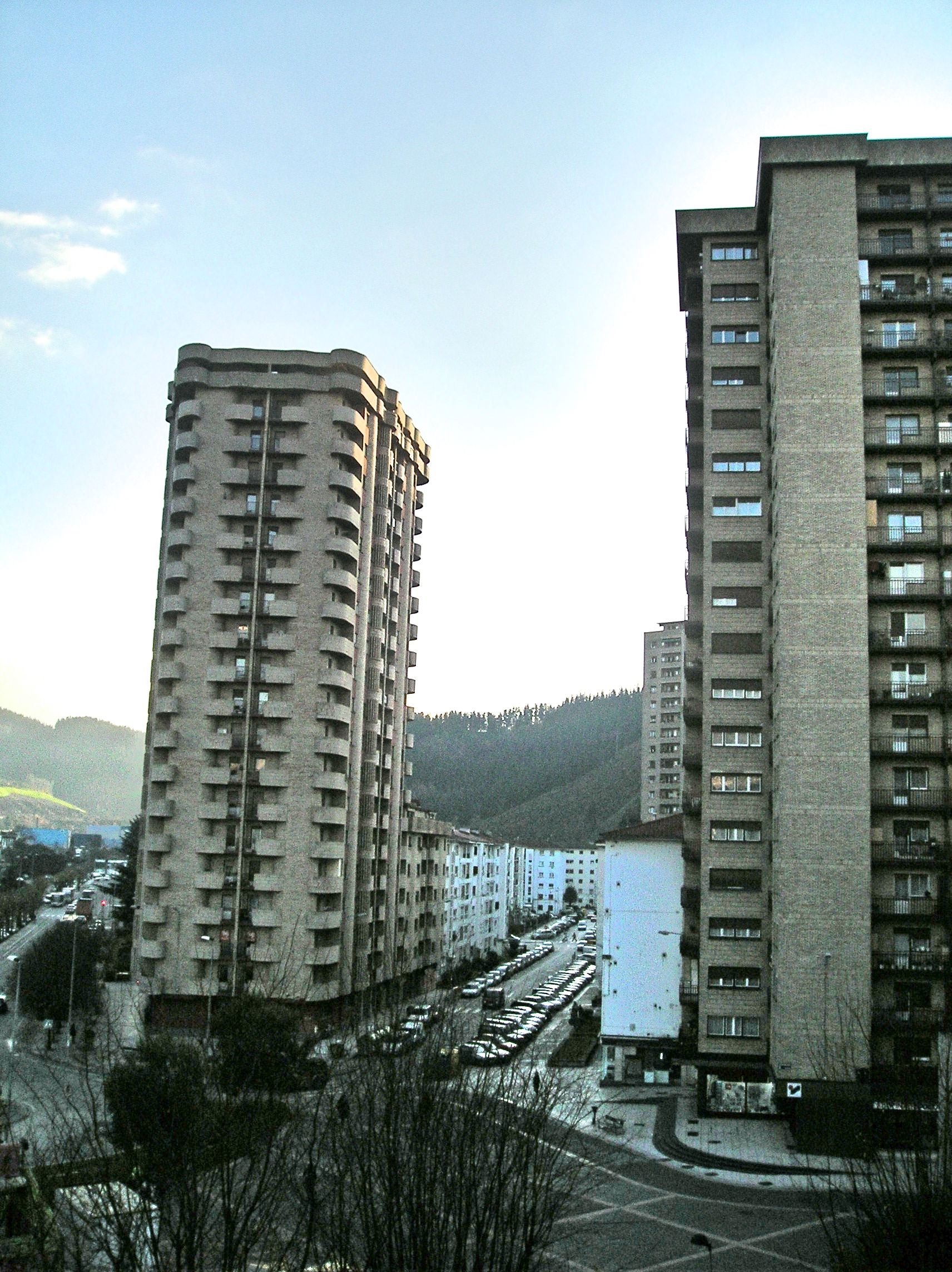 San Andres neighbourhood